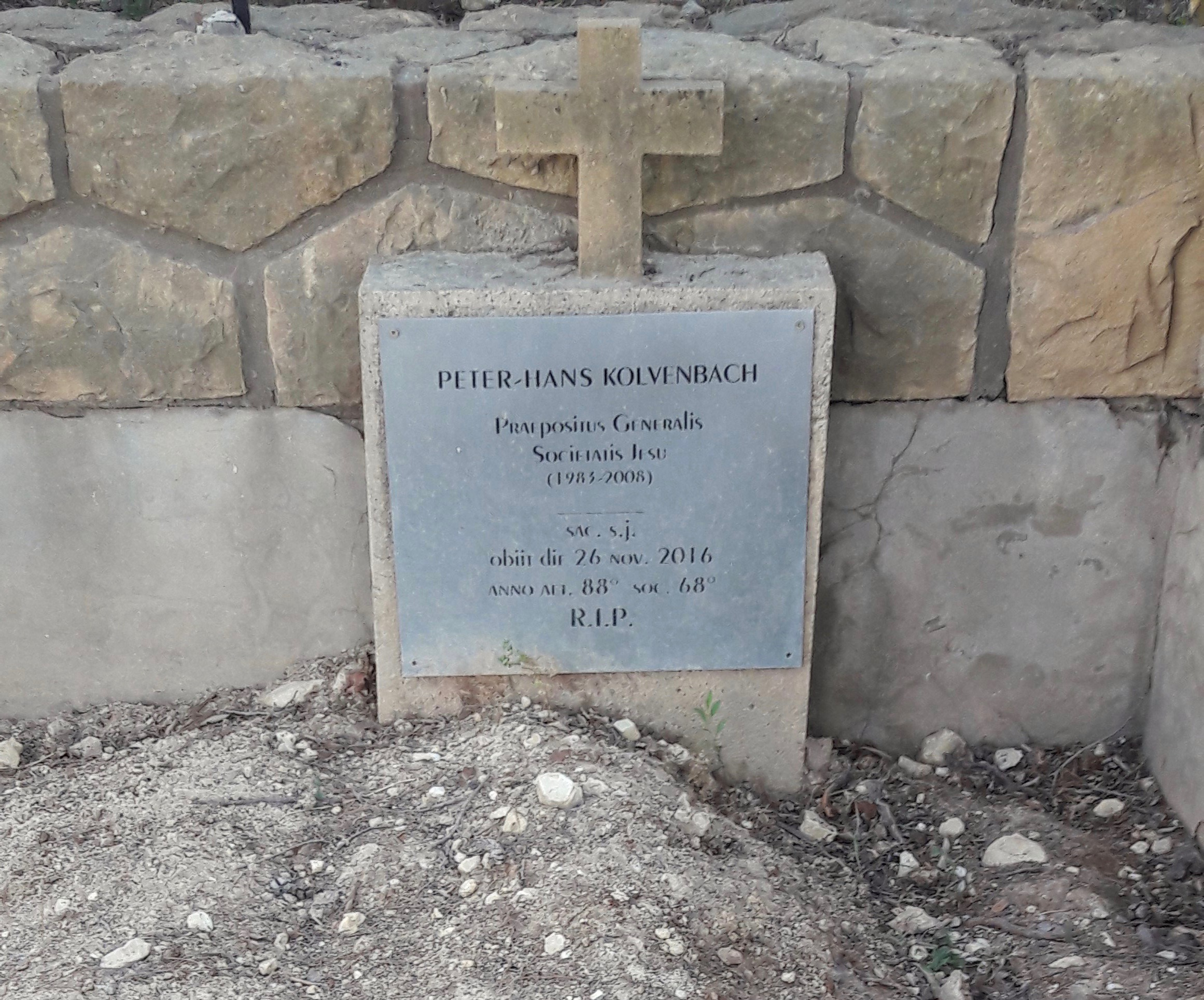 The site of the burial of Peter-Hans Kolvenbach SJ in College Notre Dame de Jamhour outside Beirut, Father General of the Jesuits from 1983 to 2000